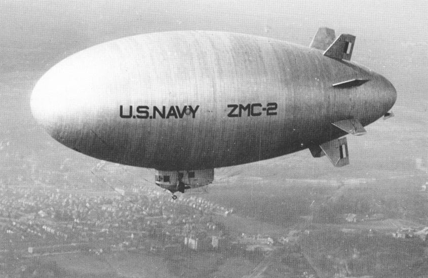 The ZMC-2, shown here on a flight over Washington, D.C., was the only metal-clad airship.